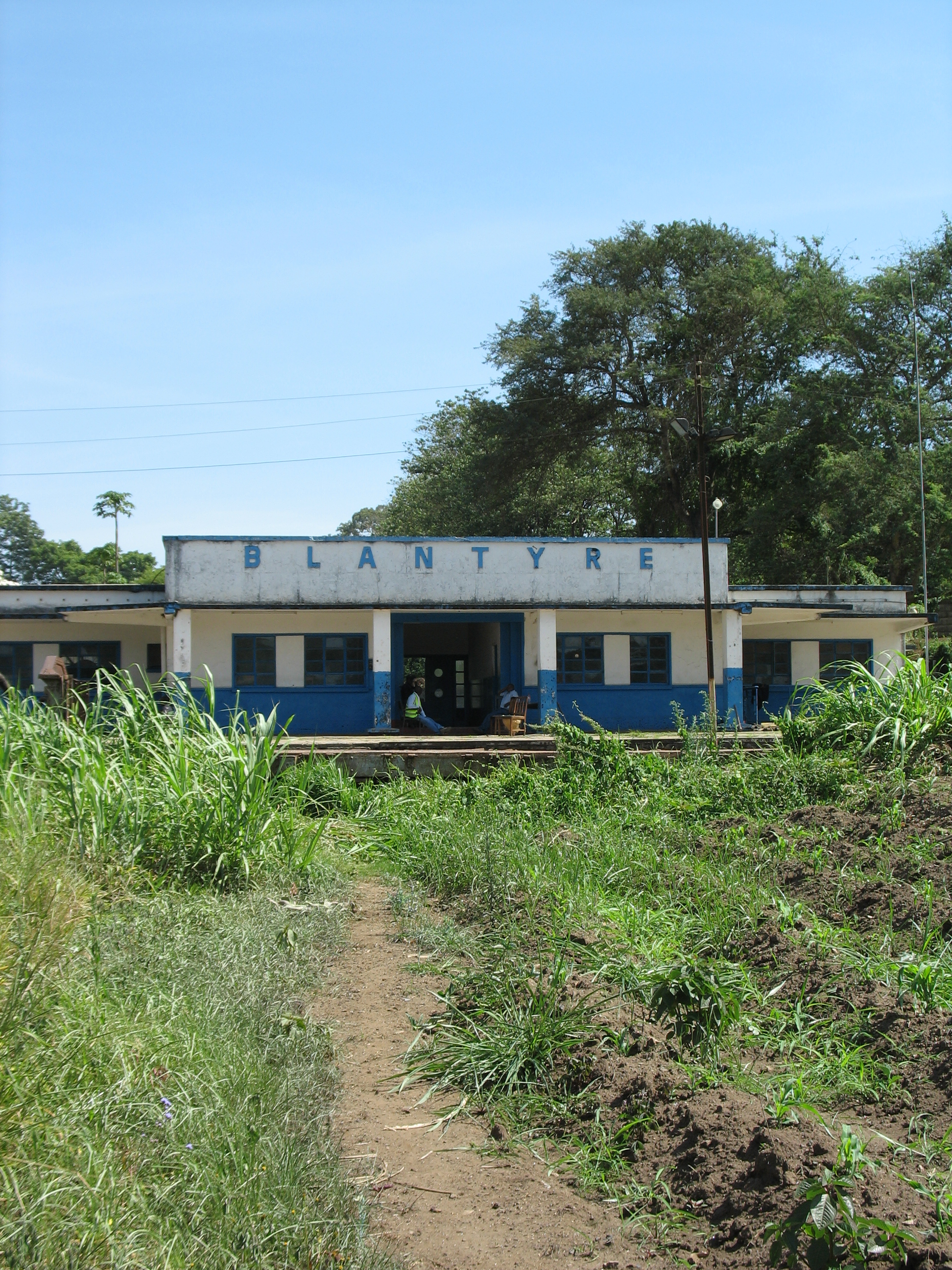 Blantyre Railway Station, viewed from the South